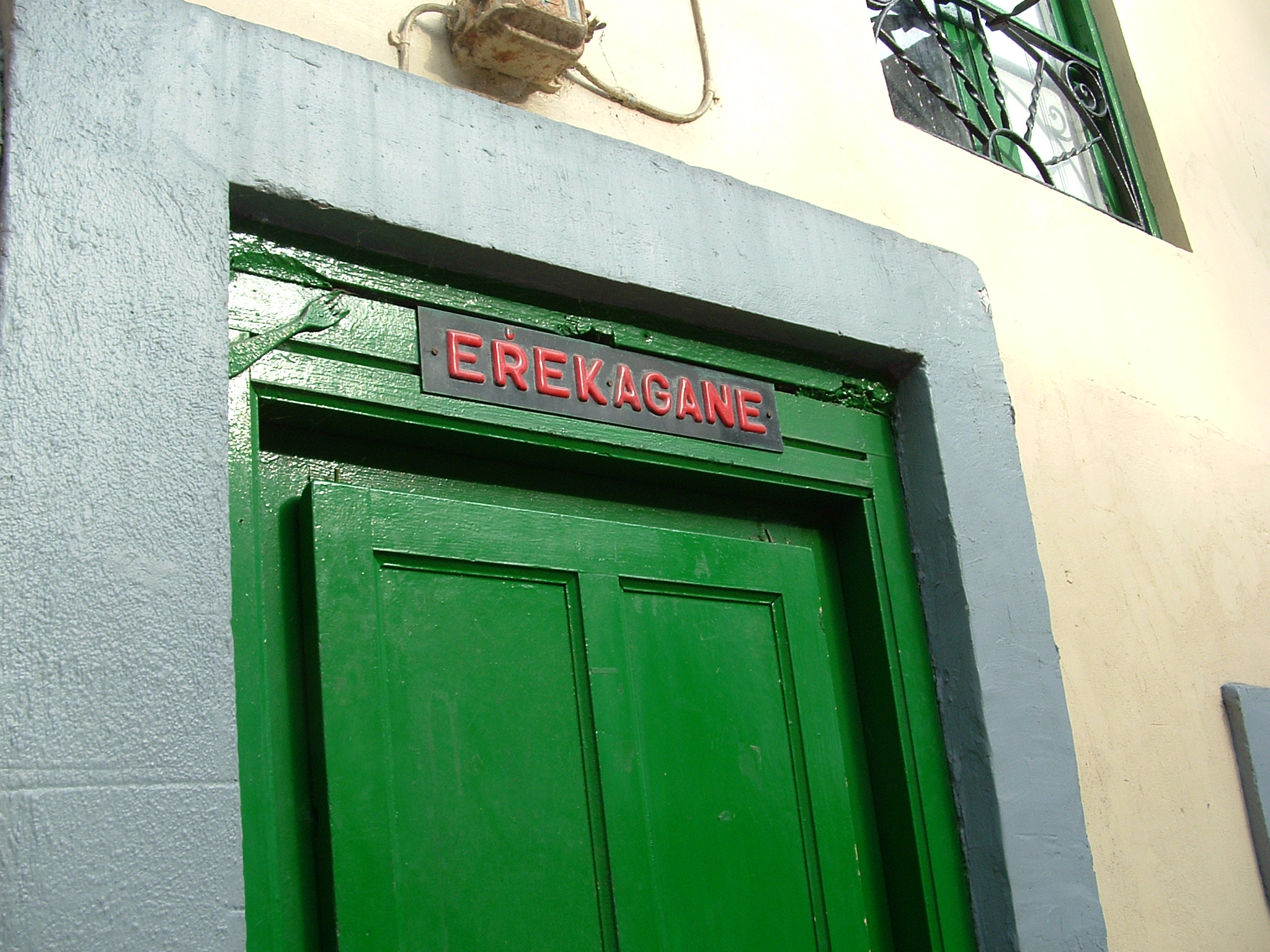 "Errekagane" sign found at Ea, Biscay, Southern Basque Country, Spain. Please note the usage of "Ŕ" instead of "RR".